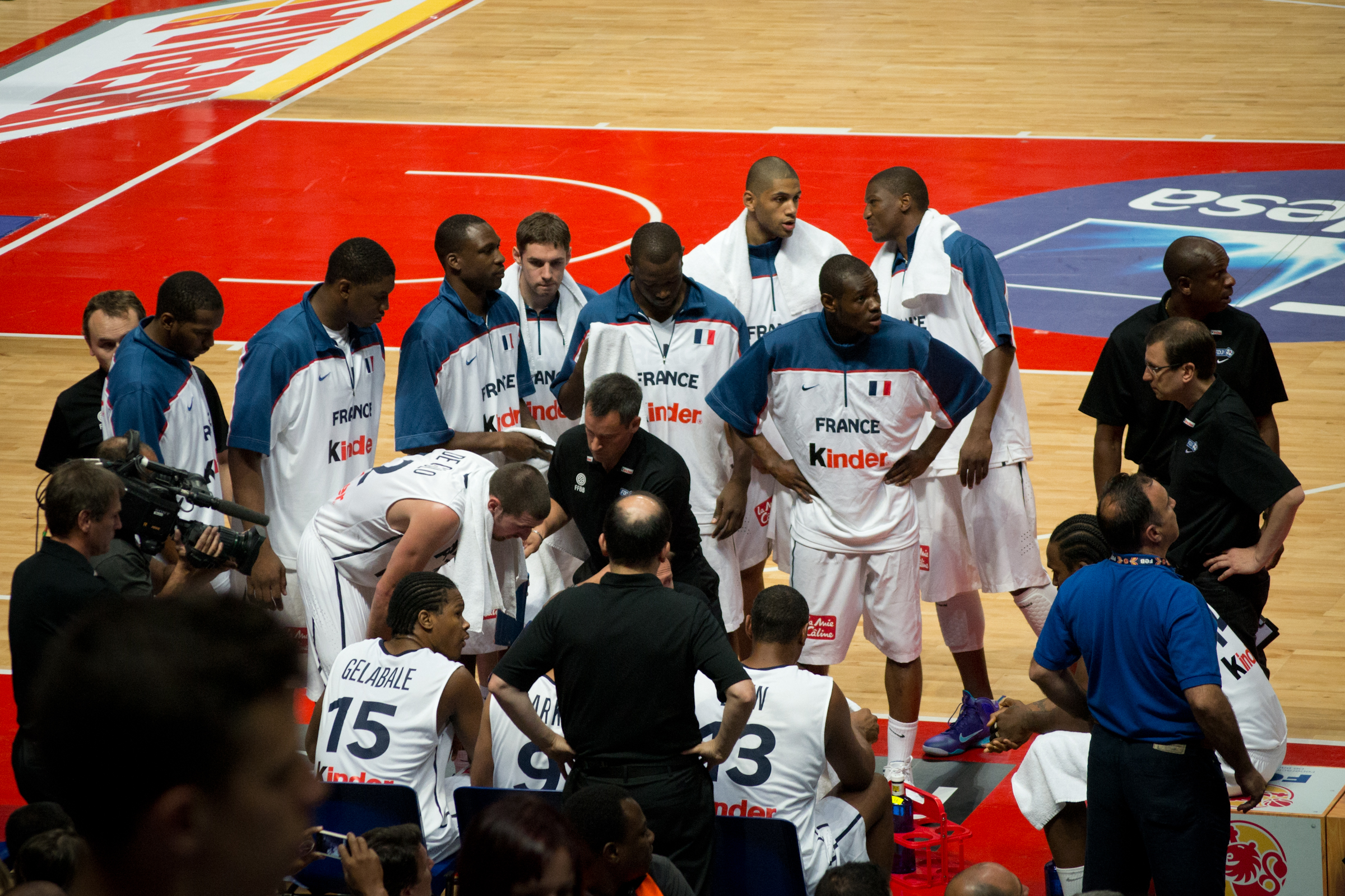 France national basketball team.